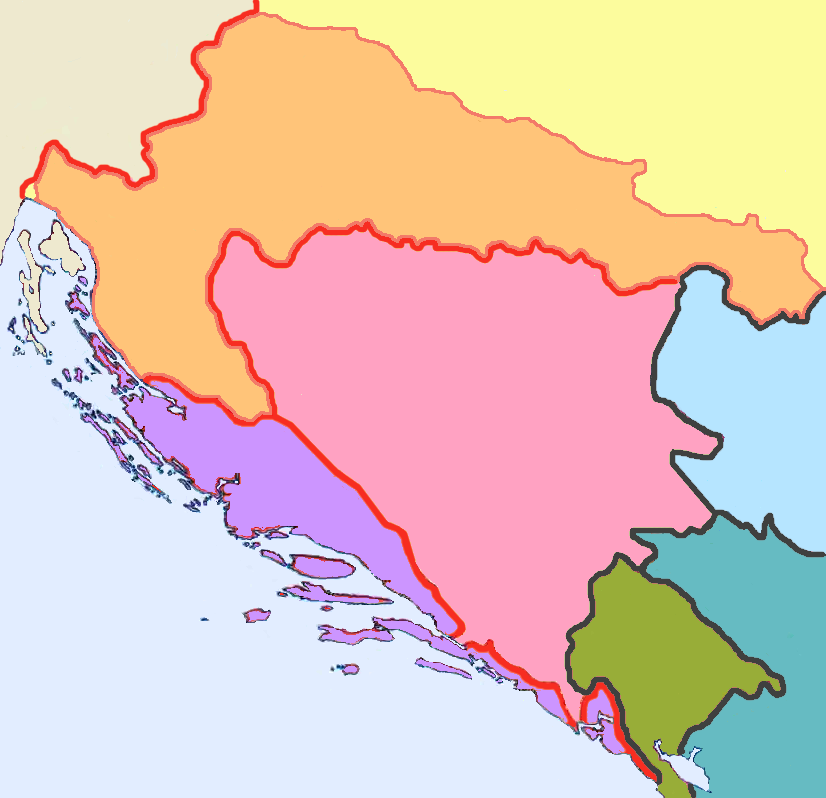 Self-made image of the Triune Kingdom of Dalmatia, Croatia and Slavonia (violet and orange) claimed from 1868 to 1918. It was made up of the Kingdom of Dalmatia (violet) and the Kingdom of Croatia and Slavonia (orange). he:?????:621px-TriuneKingdom 281868-1918 29.png